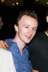 Paul Cram at 20th Century Fox studios premiere of "Contract Killers"